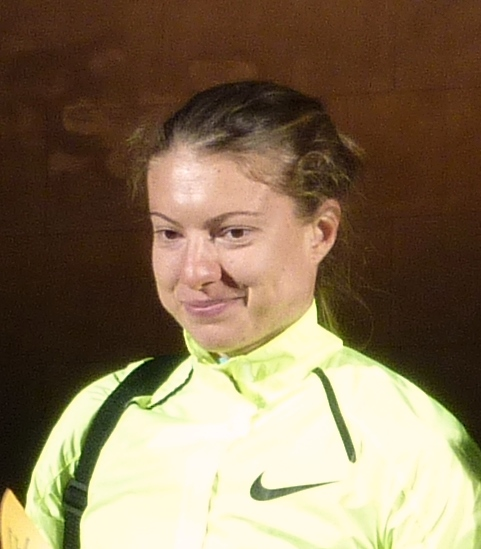 Jelena Alexandrowna Sokolowa during the "Jump & Fly" 2012 in Munich